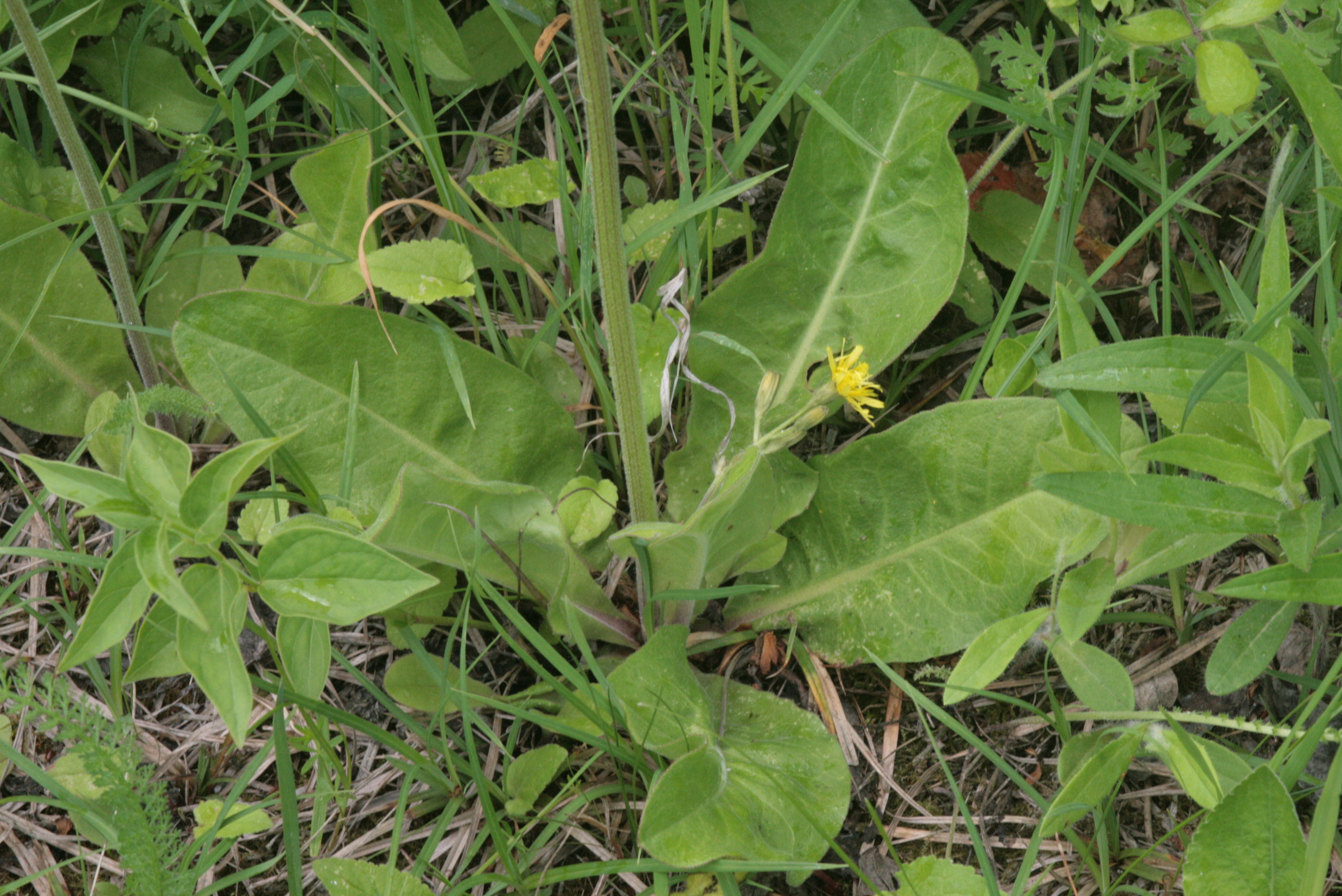 Crepis praemorsa